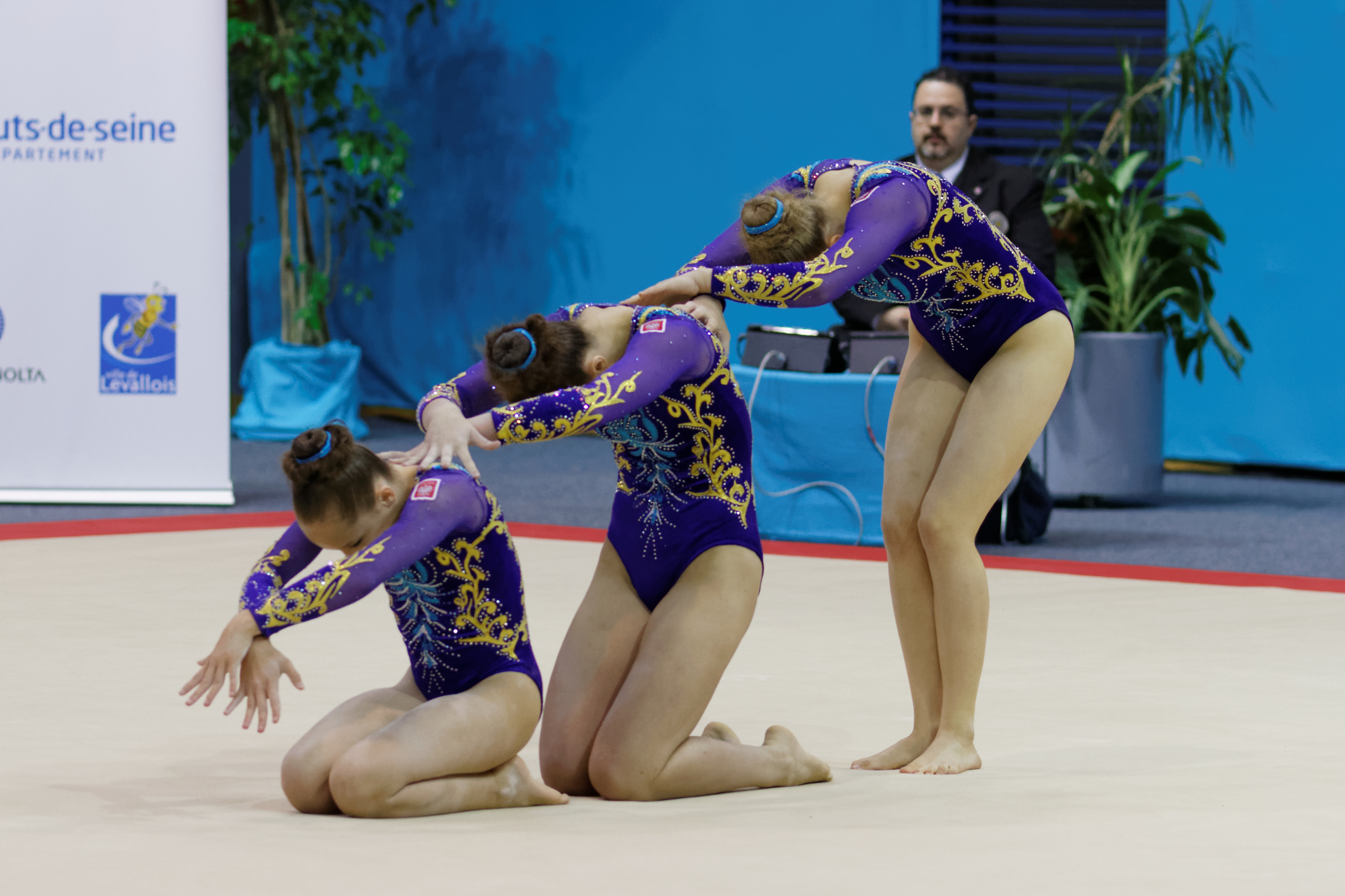 2014 Acrobatic Gymnastics World Championships, 10th-12 July, Levallois-Perret, France. Qualifications: women's group. Poland.